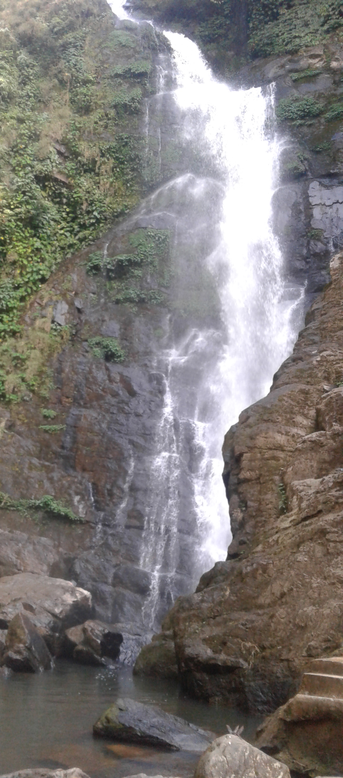 Chapanala Waterfalls